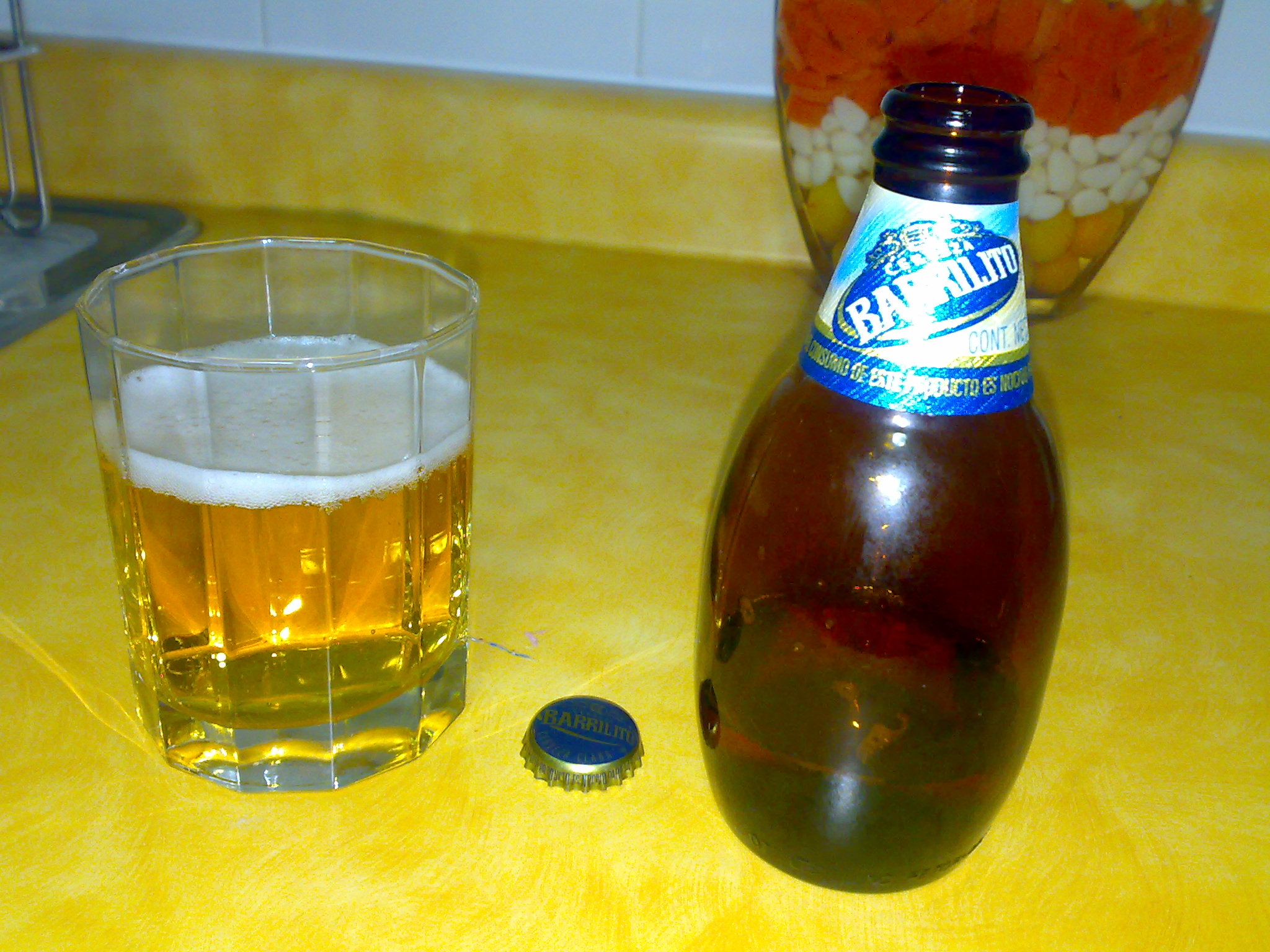 Barrilito. Picture taken by me.